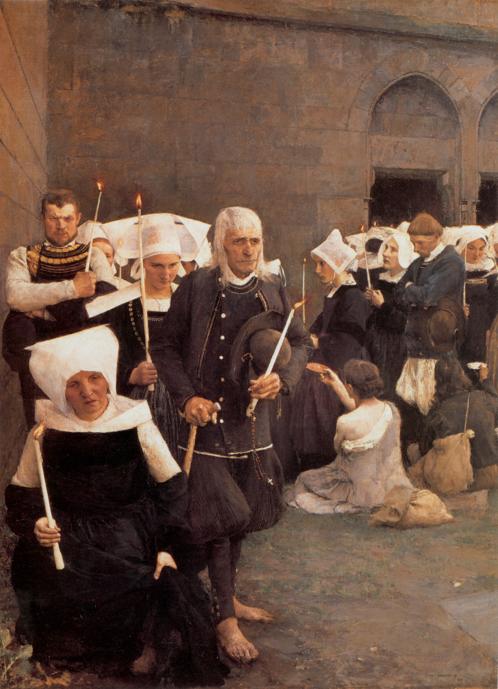 Brittany Pardon